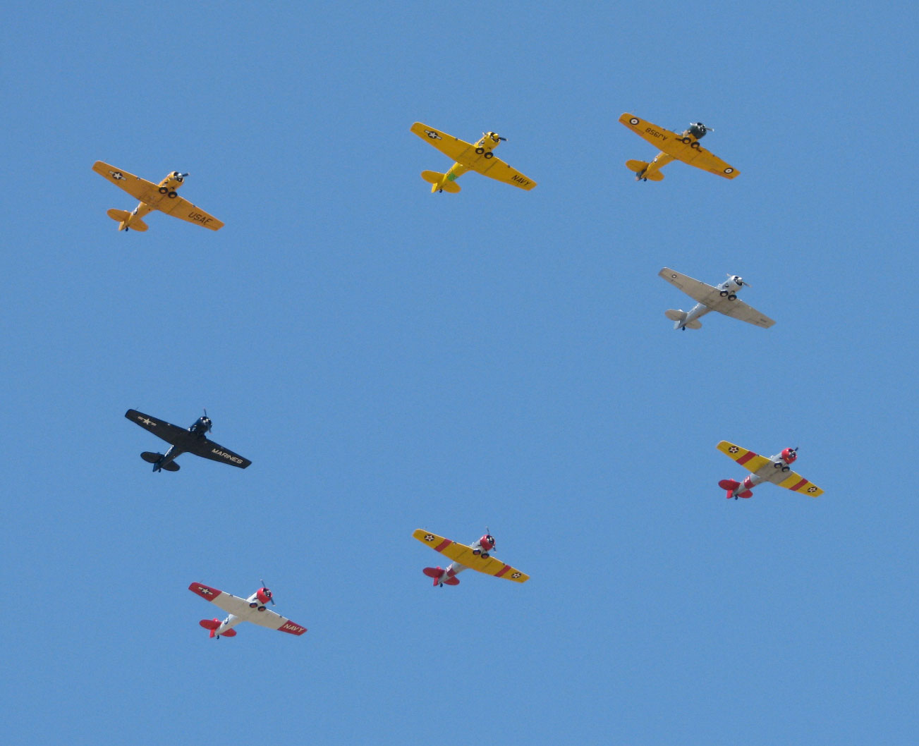 Eight T-6 Texan warbirds flying in formation during the 2008 Commemorative Air Force Airshow